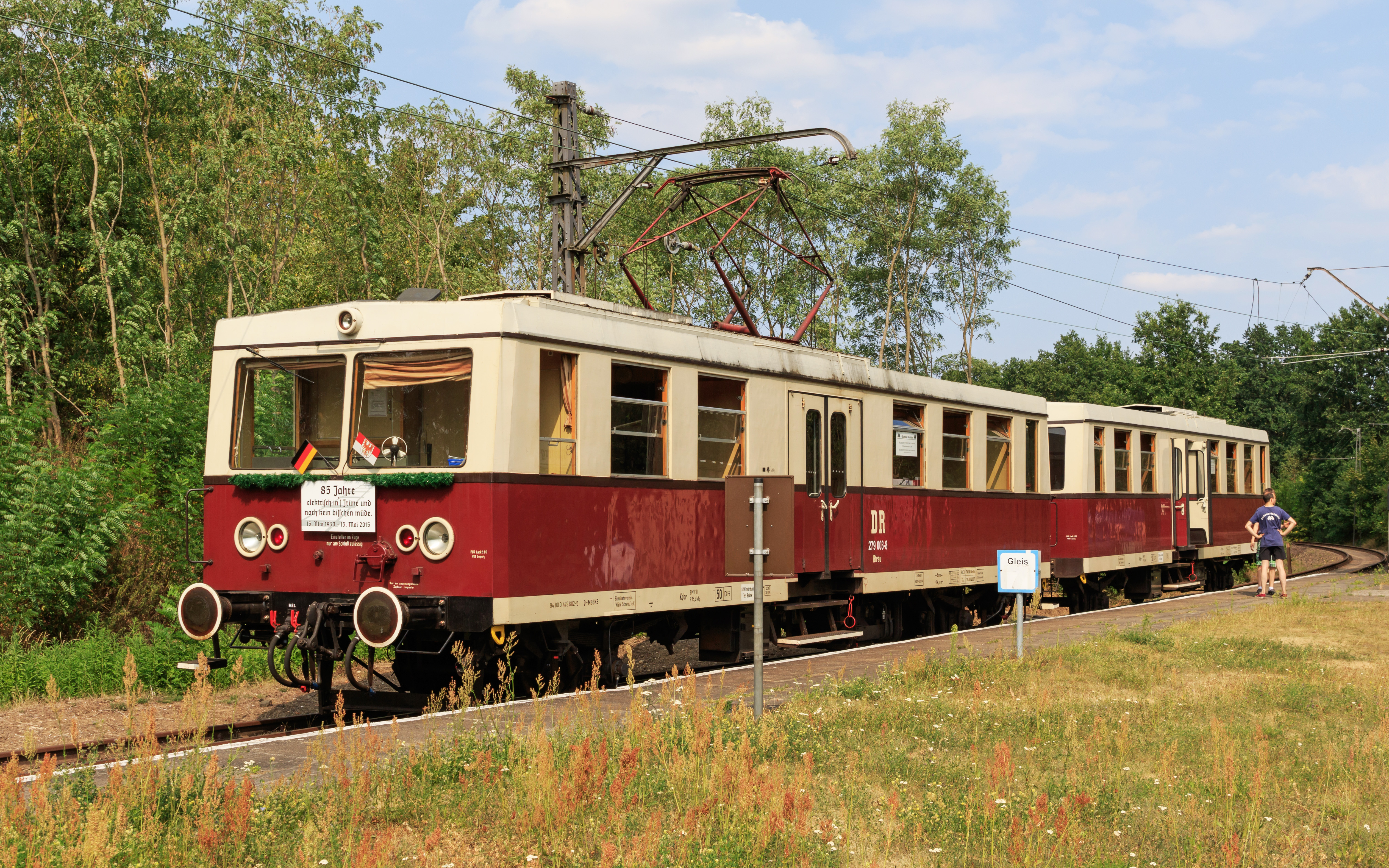 Historical train at Müncheberg station, Brandenburg, Germany